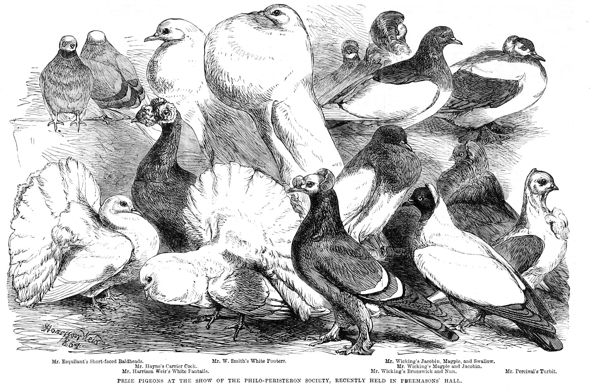 Pigeons at the annual Philoperisteron society meeting